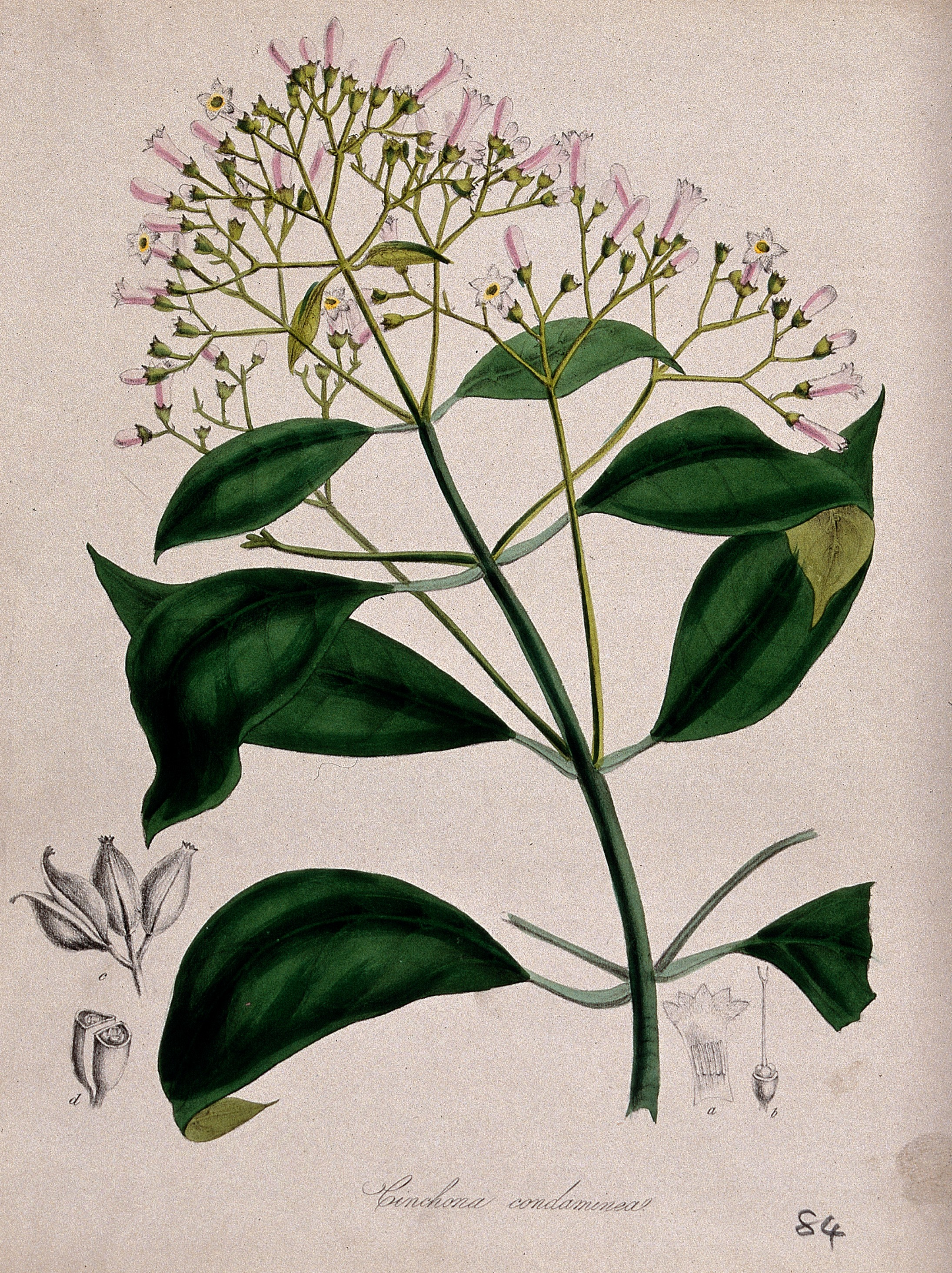 Cinchona plant (Cinchona officinalis): flowering stem and floral segments. Coloured lithograph after M. A. Burnett, c. 1842. Iconographic Collections Keywords: M.A. Burnett; brn 23804; Materia Medica